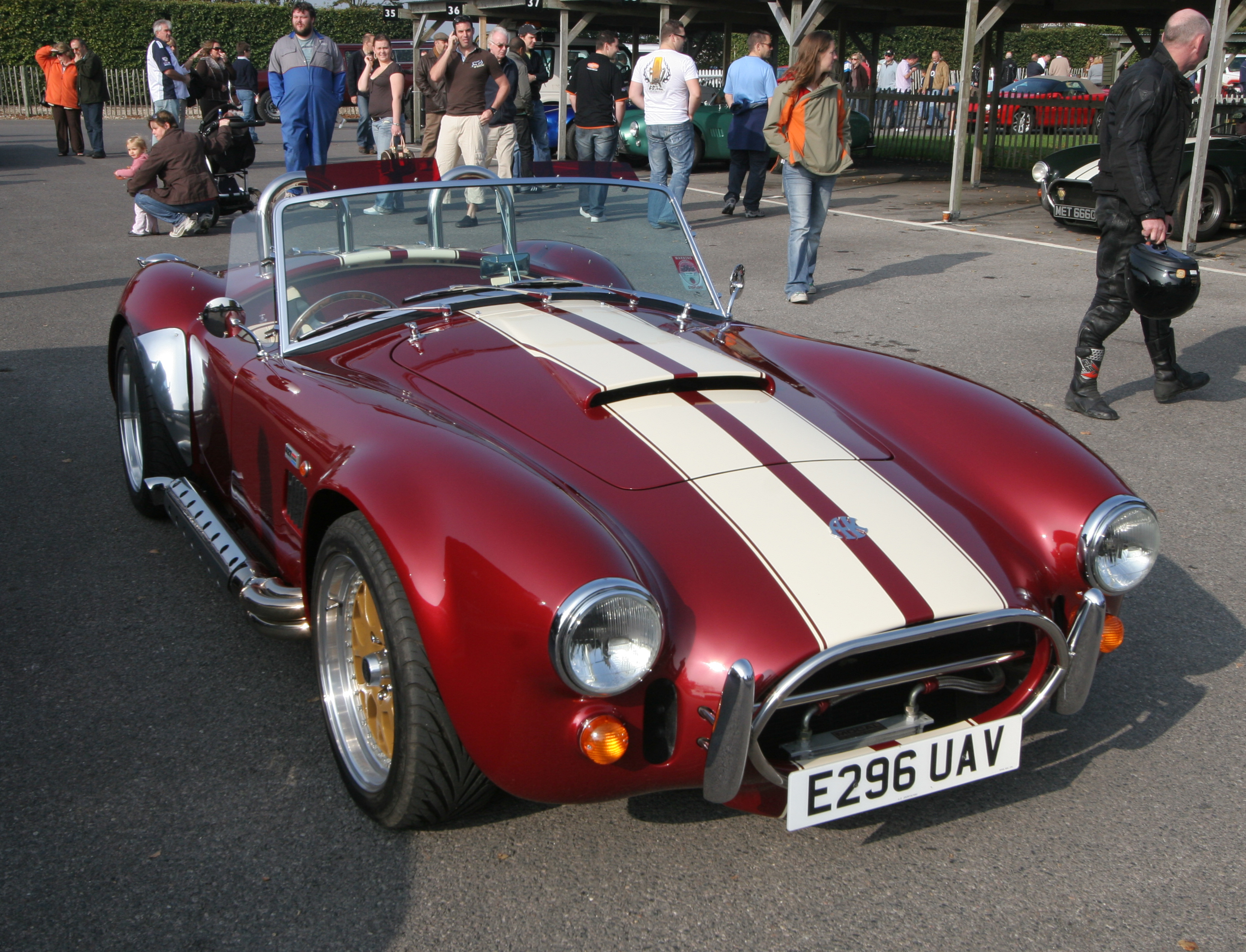 AK Sports Cars